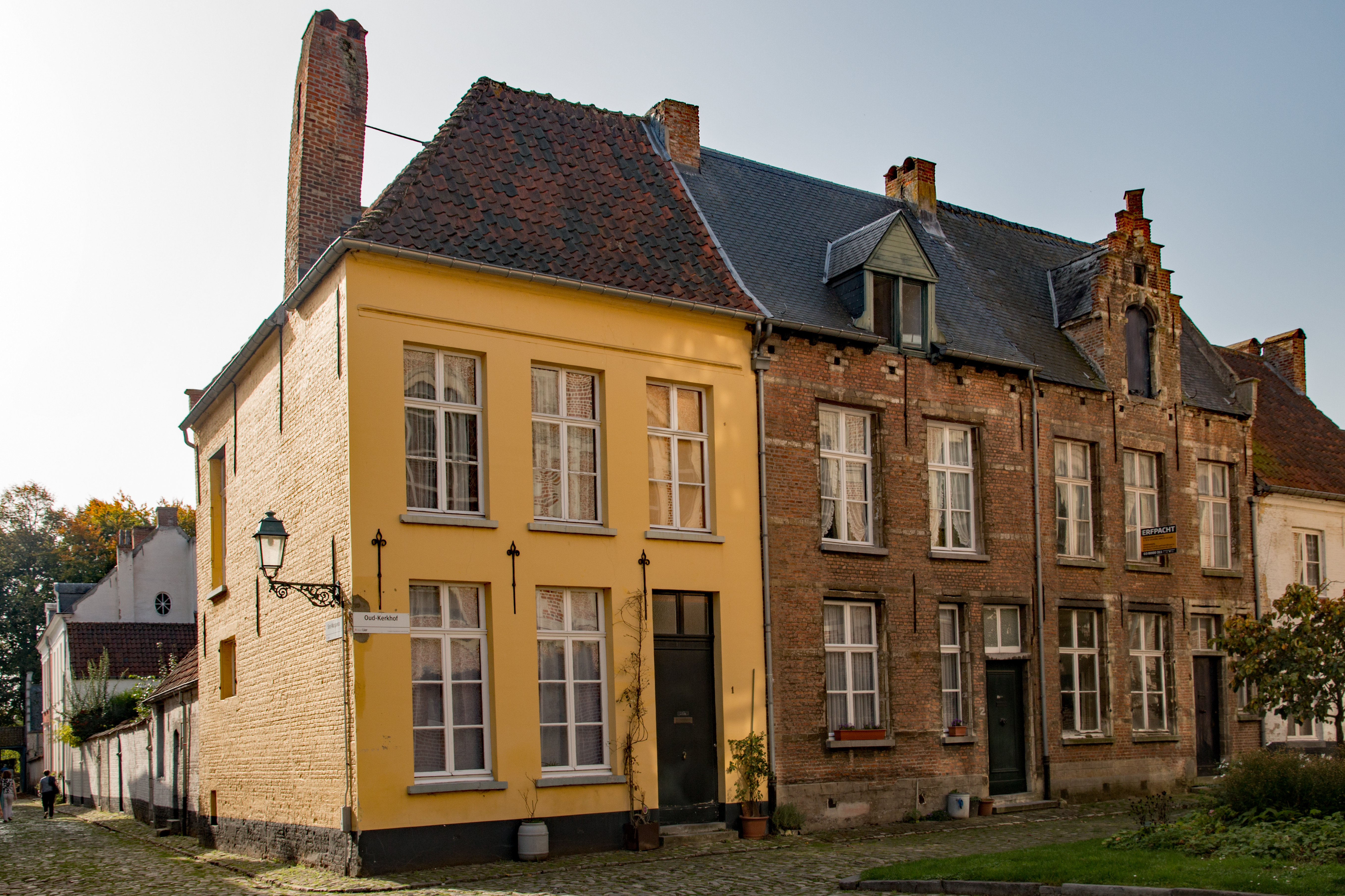 Oud Kerkhof nbrs 1 2 and 3 in the Beguinage in Lier This photo of immovable heritage has been taken in the Flemish Region